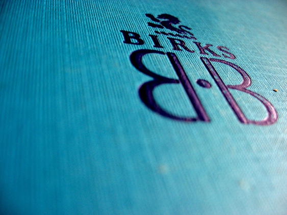 Picture of a Birks box from the 1950s/60s.